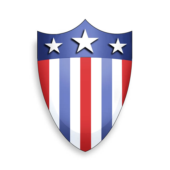 Photoshop illustration representing Captain America's shield, as retconned by Sal Buscema in The Avengers # 71 (December, 1969).